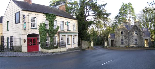 Glaslough, County Monaghan Looking north-east towards the estate entrance